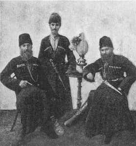 Mountain Jewish men, c. 1900. From the 1905-1906 Jewish Encyclopedia. (Original description: Mountain Jews of the Caucasus)